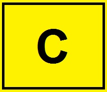 Air Traffic Services Reporting Office ARO signal. A black C on yellow background